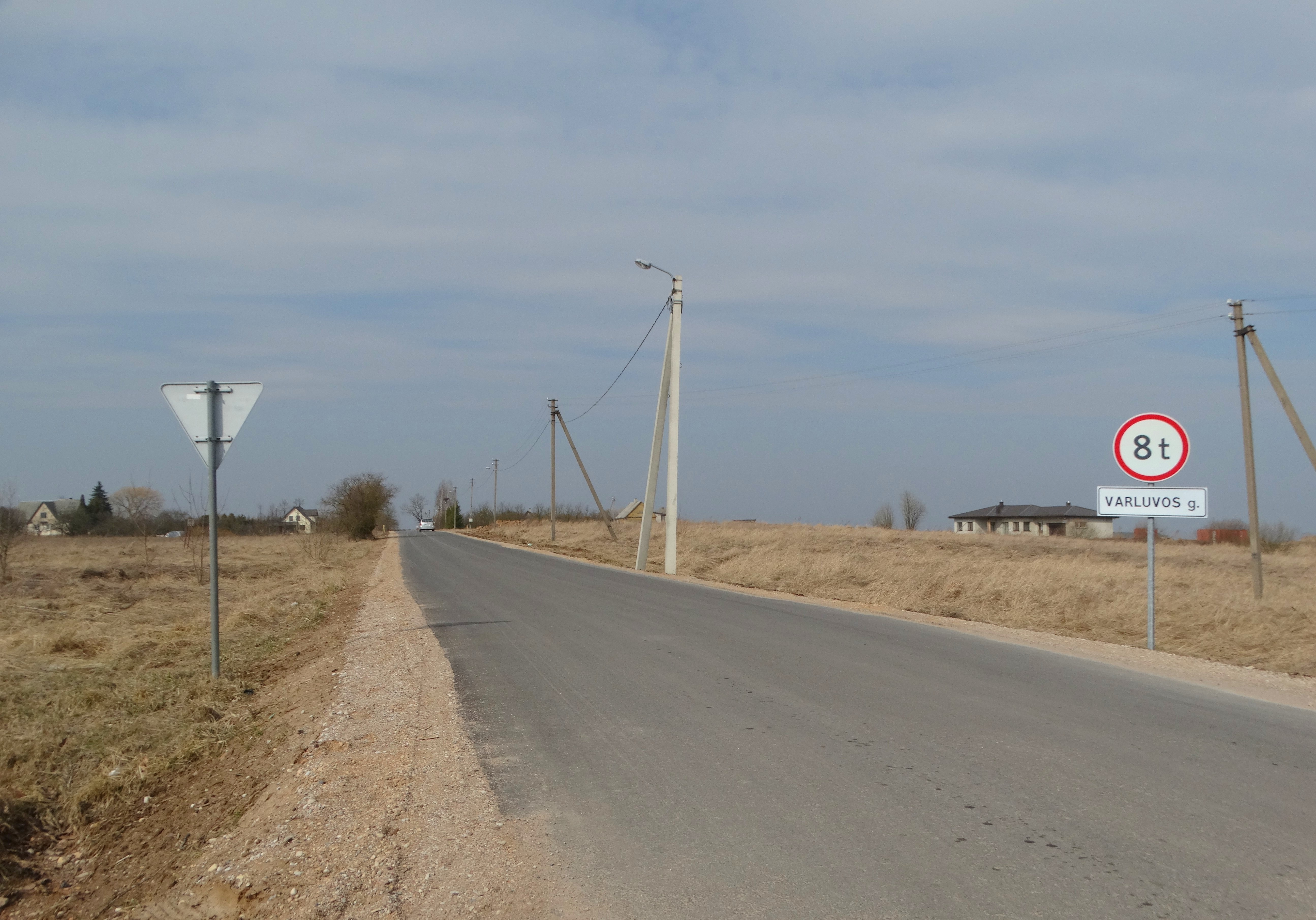 Varluva, Kaunas district, Lithuania